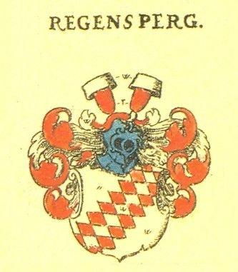 Coat of arms, Reinsberg (Regensperg) family, Meissen Saxony